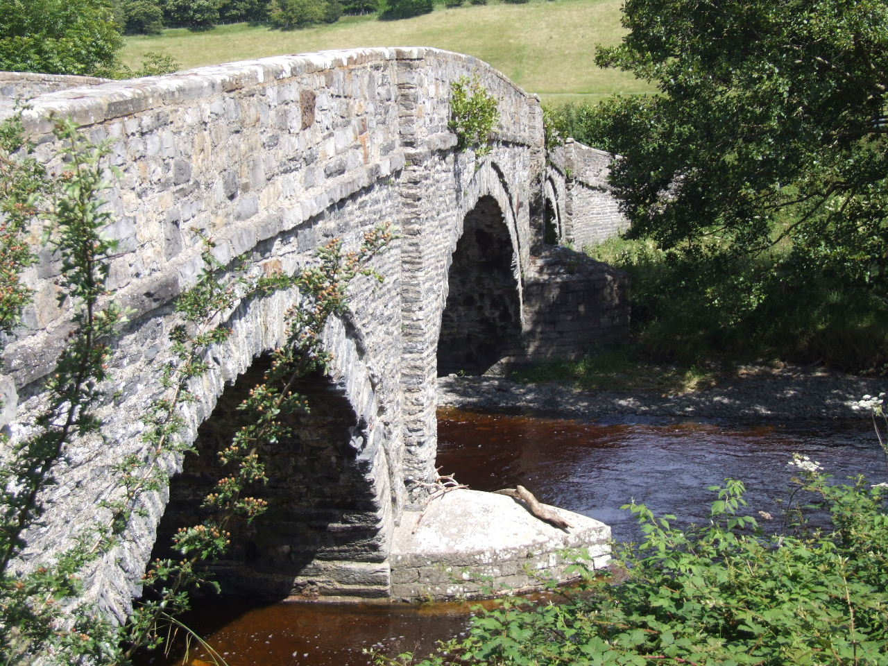 The bridge over the Afon Elwy, Llangernyw, Conwy County, Wales.